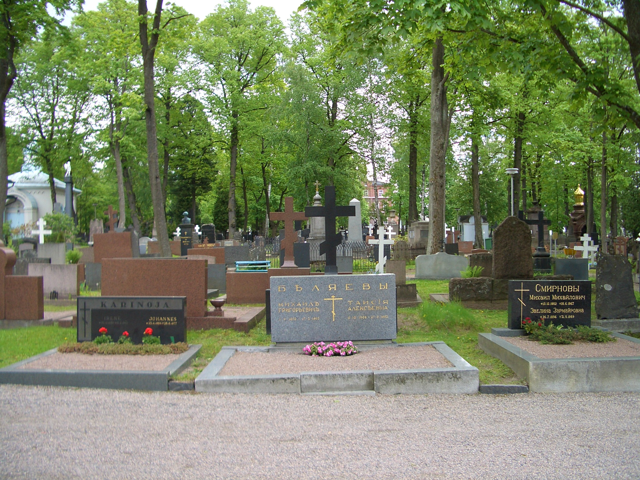 In the Orthodox Cemetery in Helsinki